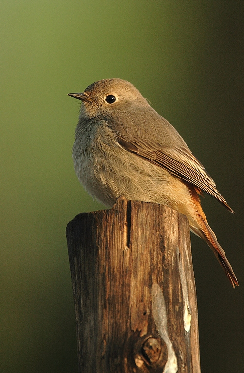 Hodgsons Redstart, Manas National Park, Assam. India